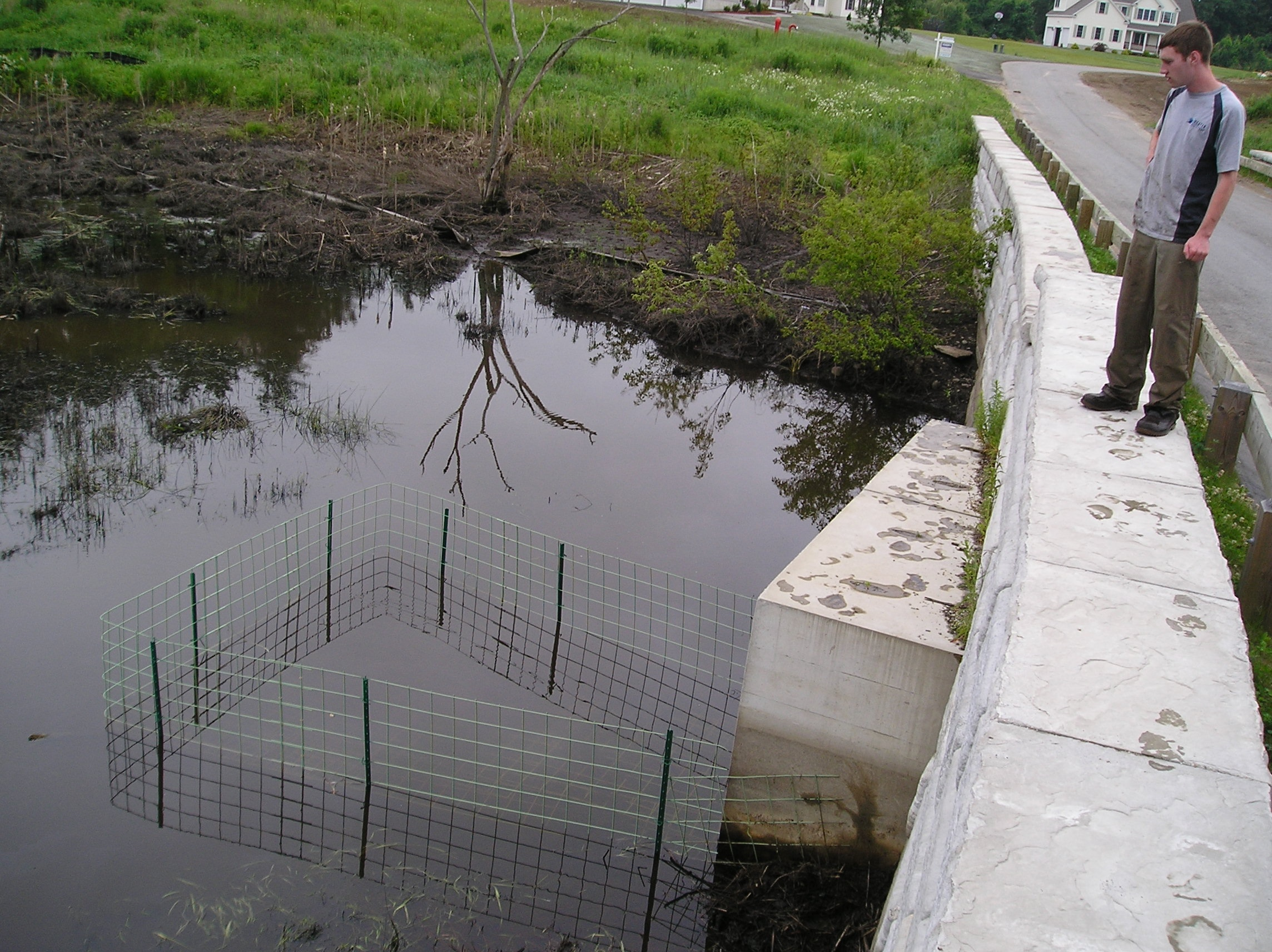 Flow device used to prevent beavers from damming culvert in Massachusetts